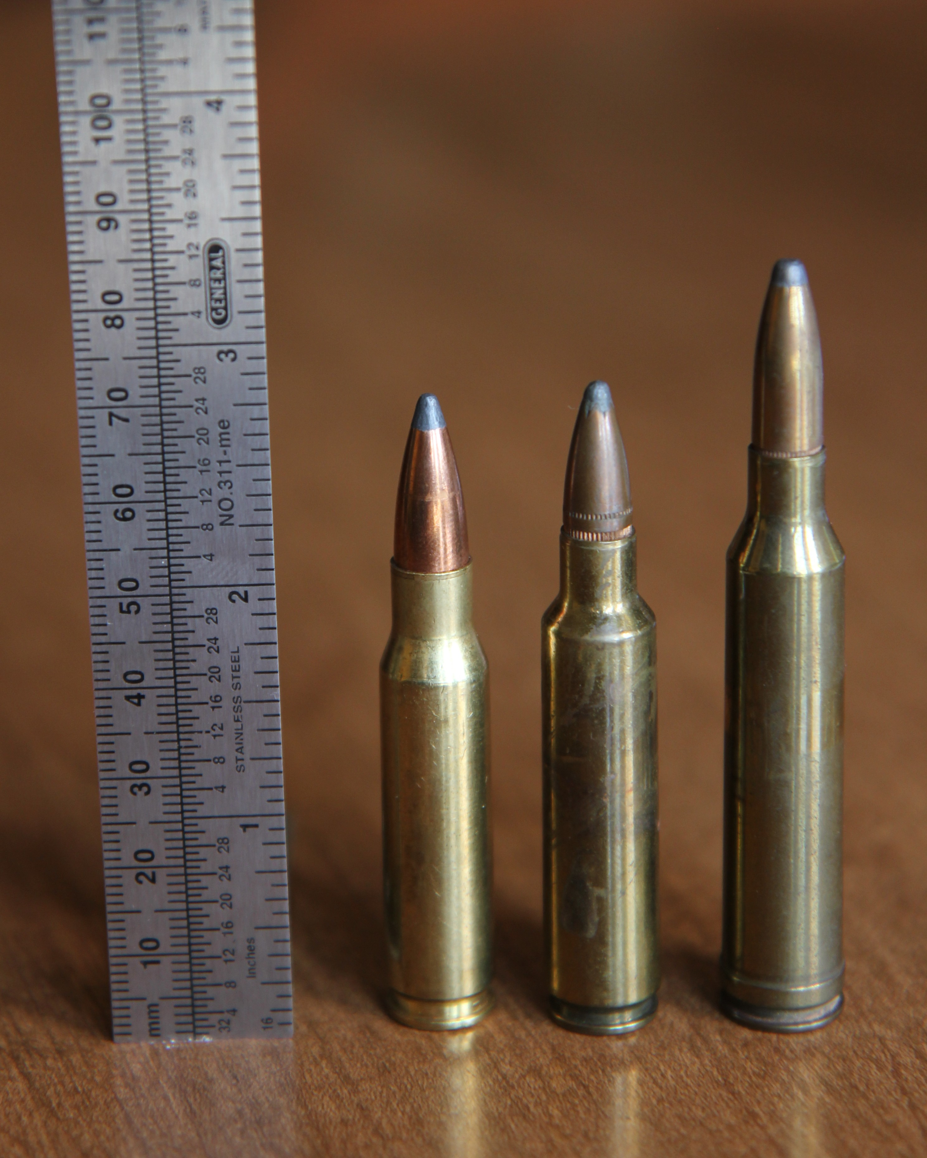 From left to right: metric/imperial ruler for size comparisons next to .308 Winchester, .284 Winchester and 7mm Remington Magnum cartridges loaded with soft point bullets.